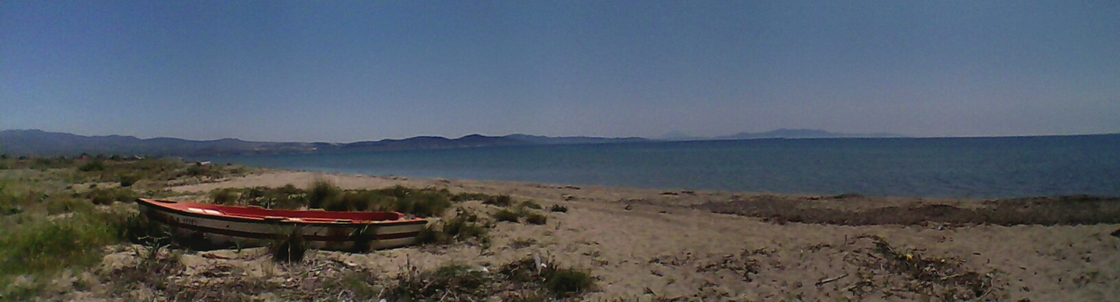 Agios Mamas beach skyline, Chalkidiki, Greece